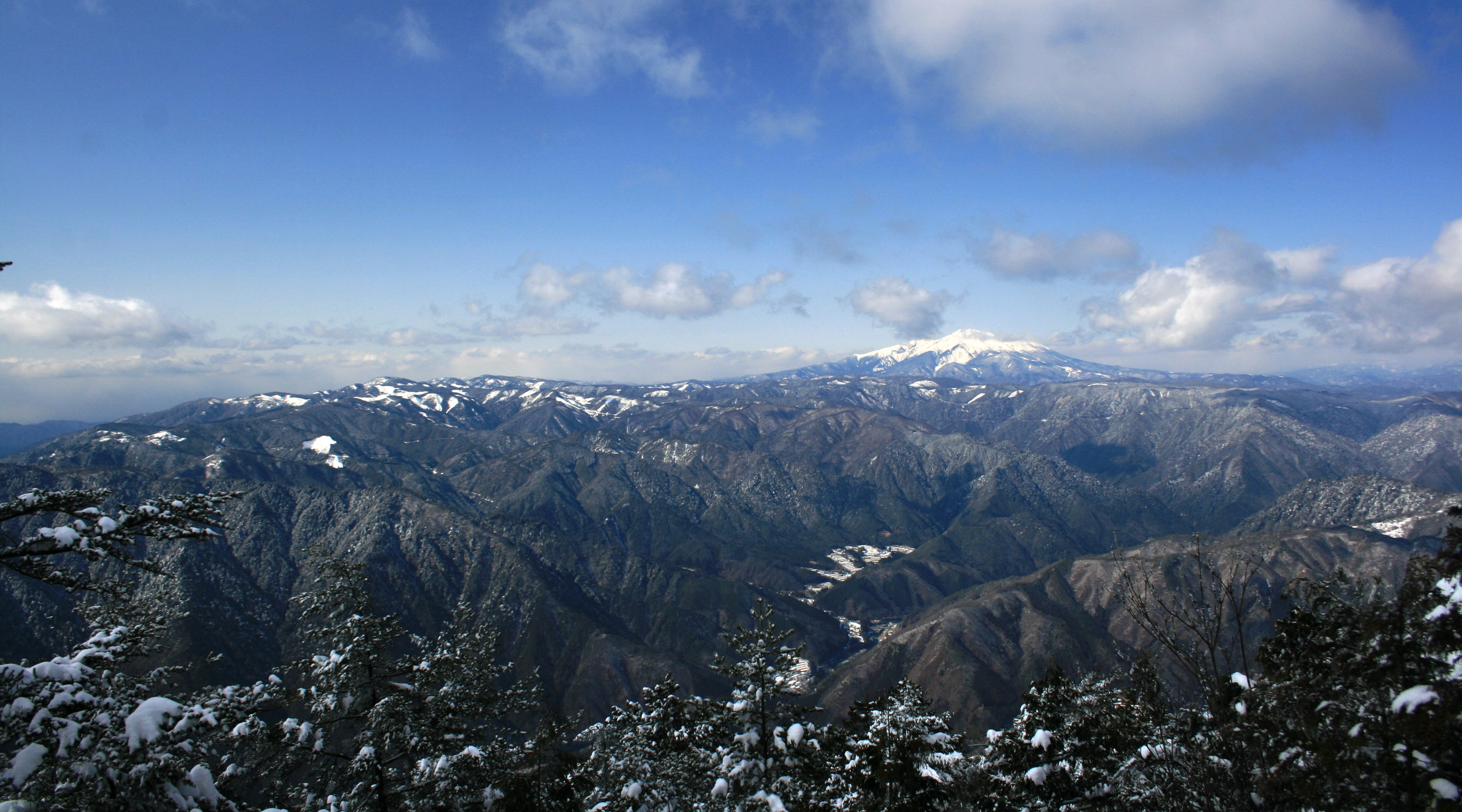 Mount Okusangai and Mount Ontake seen from Mount Nagiso